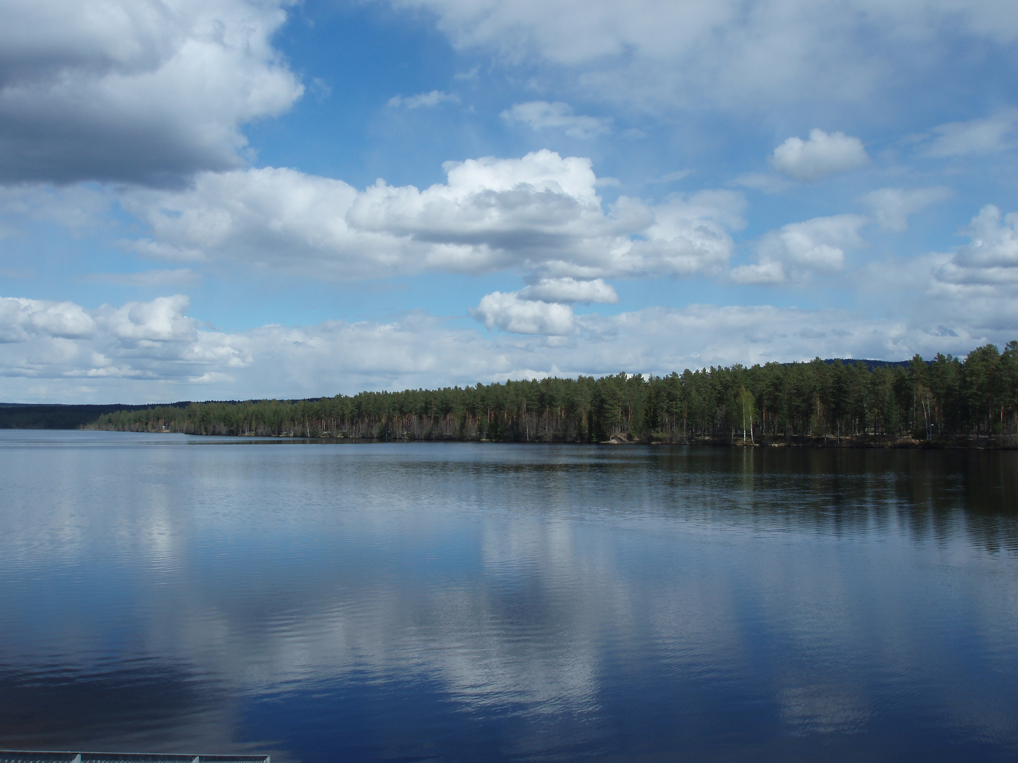 The lake Løpsjøen in Åmot municipality in Hedmark county in Norway.